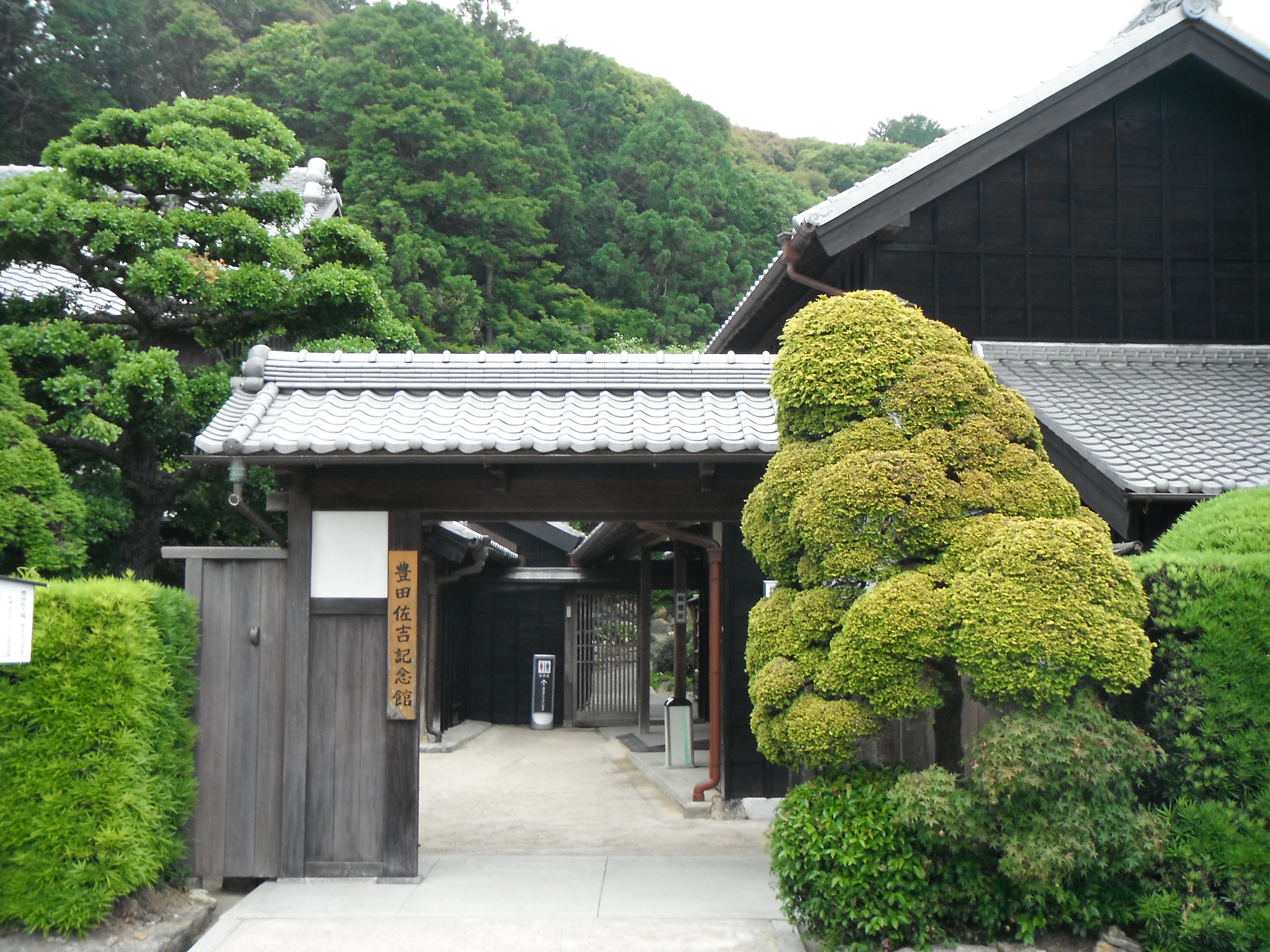 Toyota Sakichi Memorial Hall